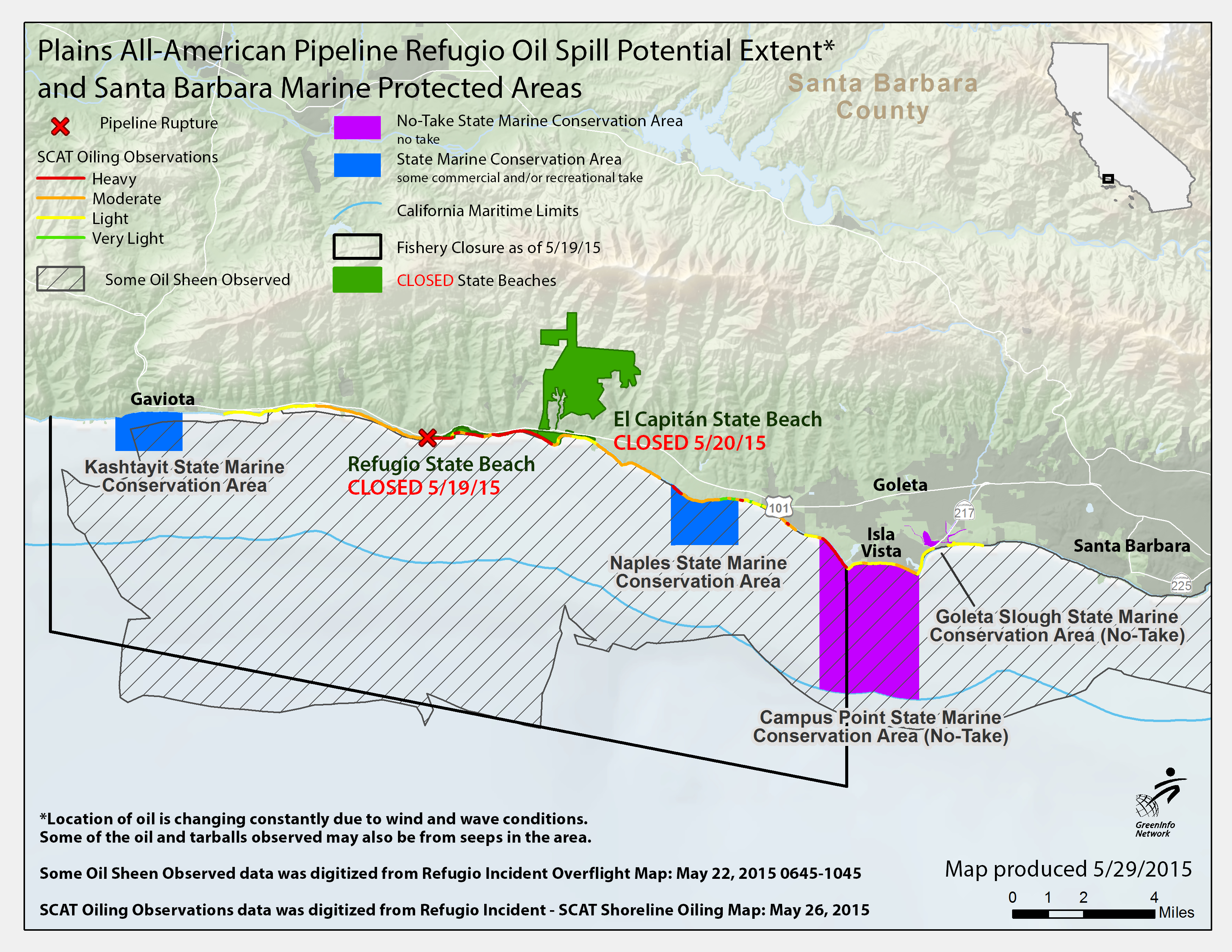 Map of Refugio Oil spill with relation to marine protected areas in Santa Barbara County.